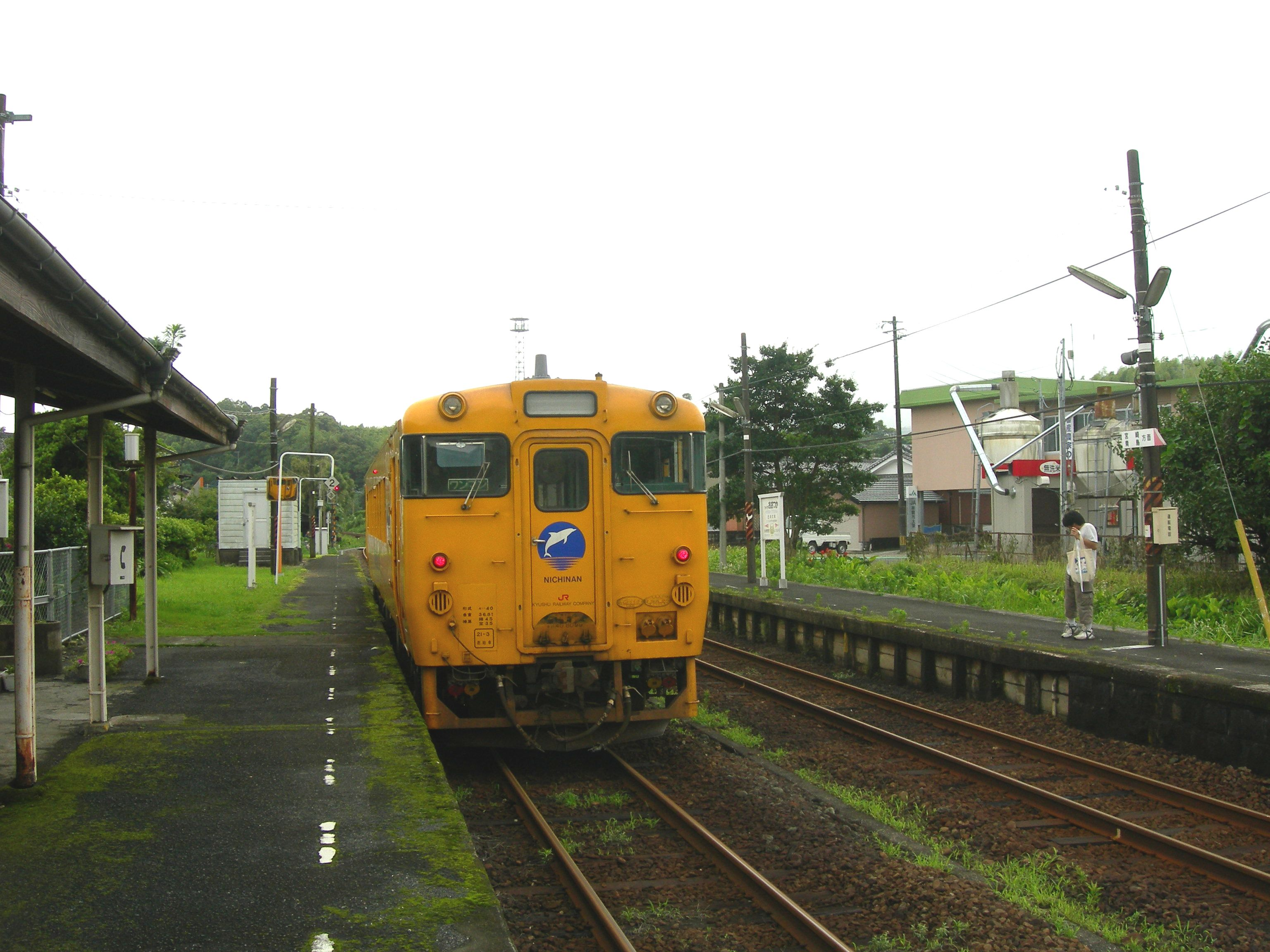 Hyuga-Otsuka Station platform